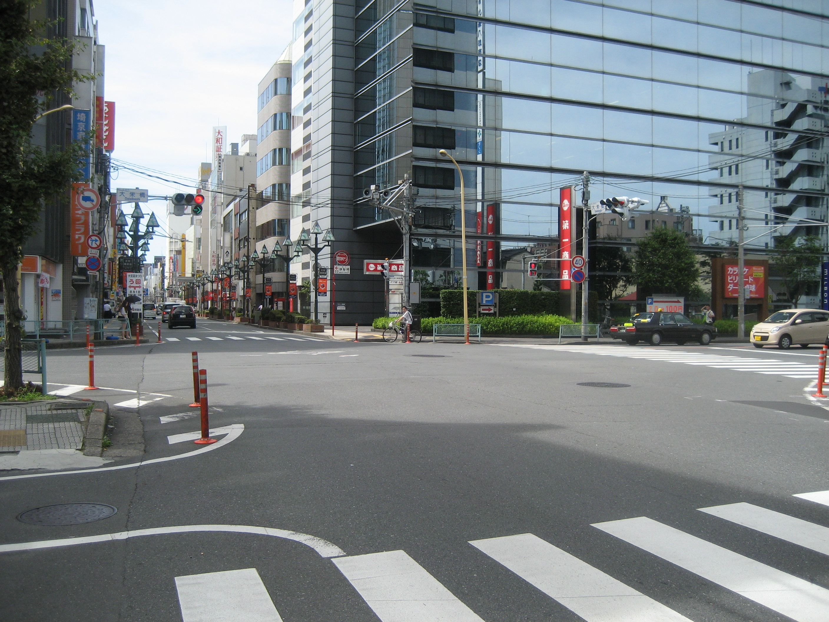 The Saitama Prefectural Road Route 90 at the Daieibashi Intersection in Omiya-ku, Saitama City